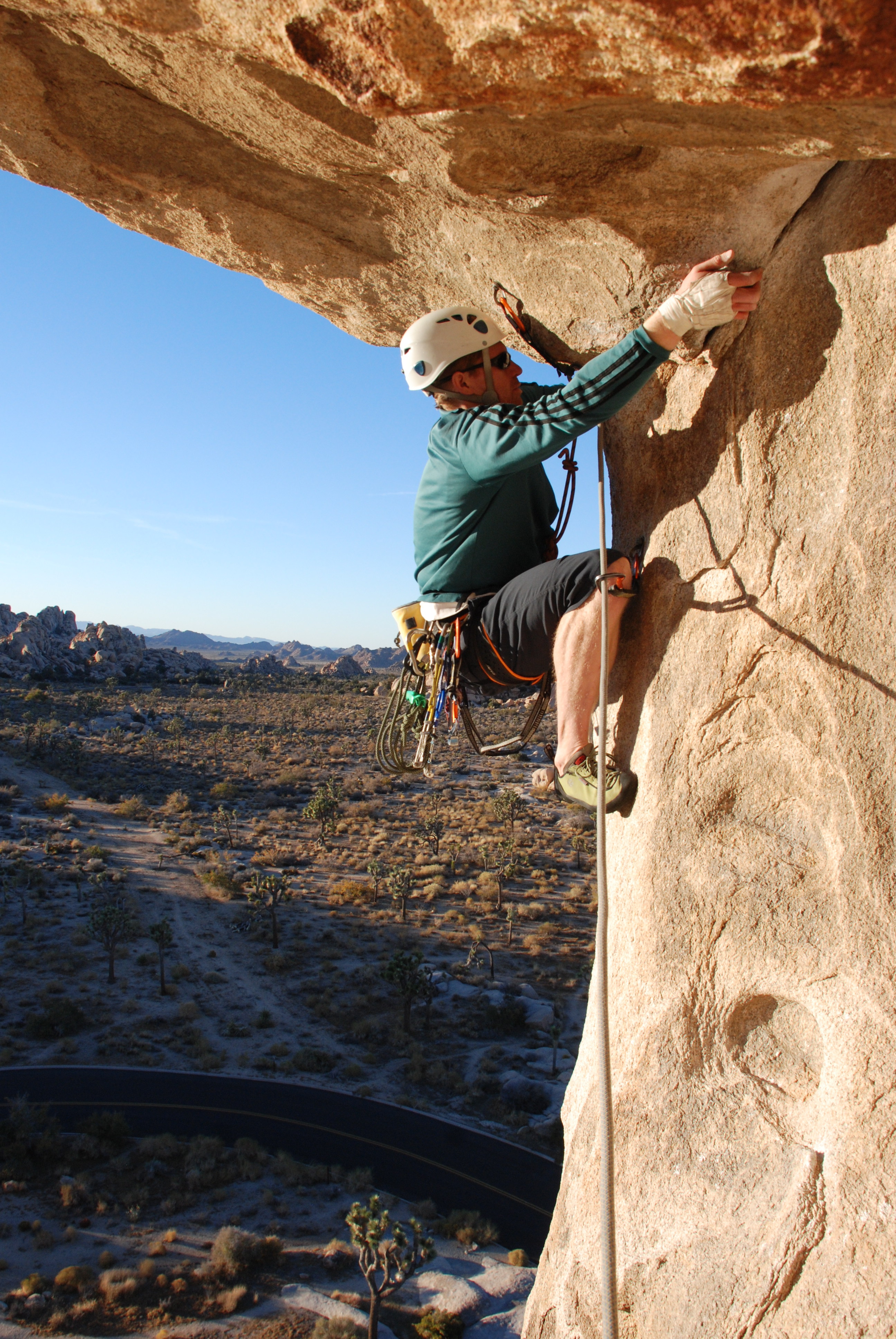 Joshua Tree National Park: Climber on last pitch of North Overhang (5.9) on Intersection Rock at Hidden Valley Campground.